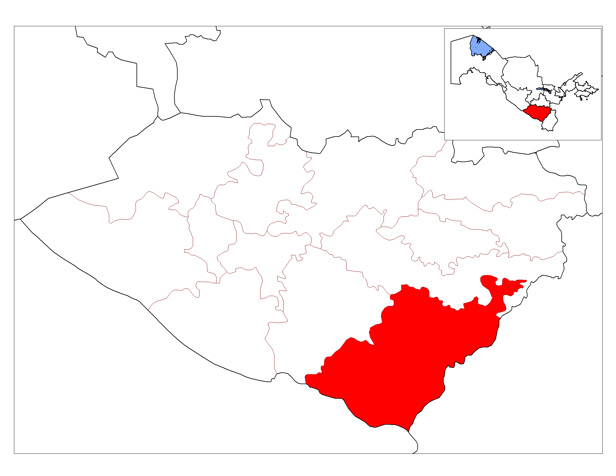 Location map of Dehqonobod District in Qashqadaryo Province, Uzbekistan